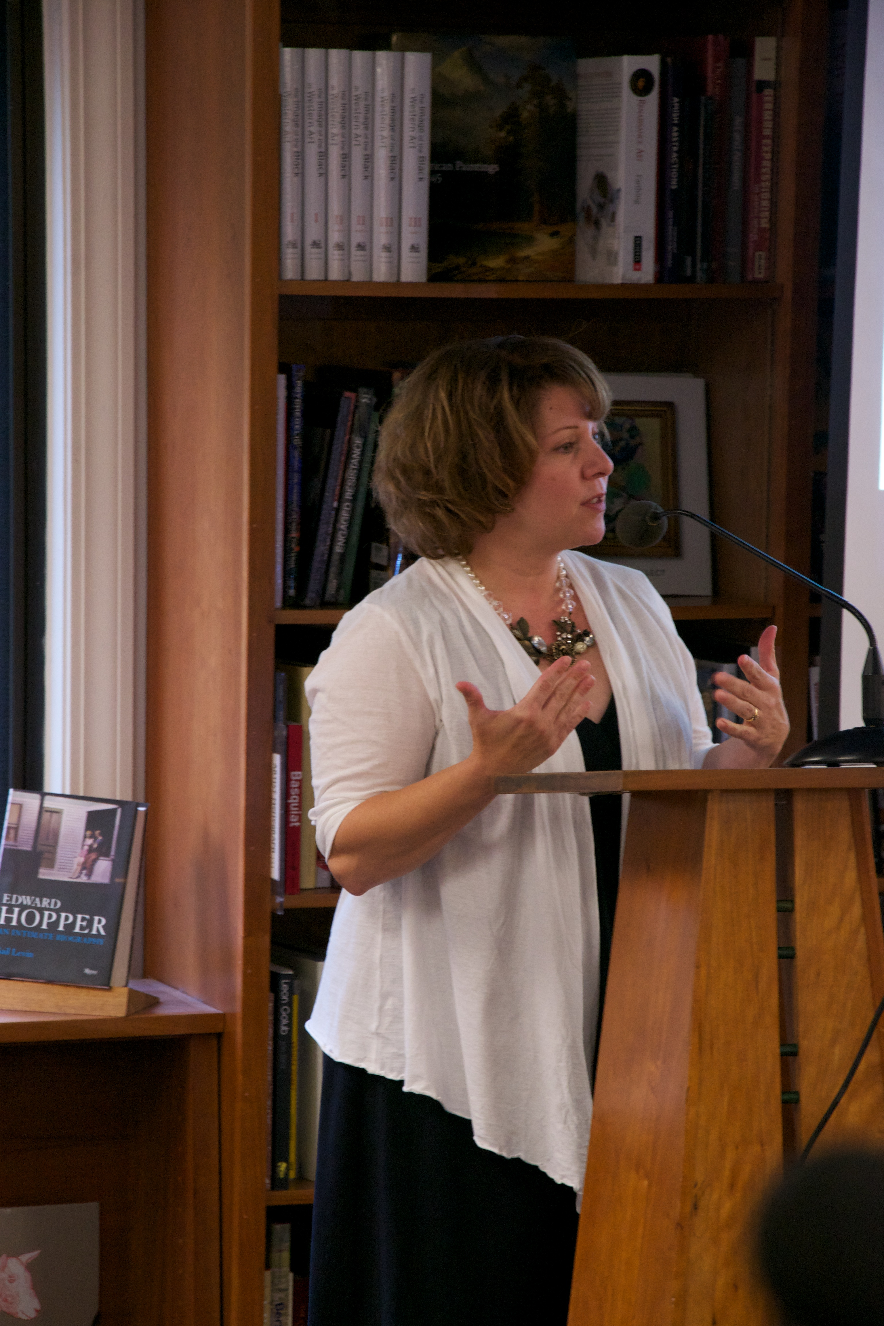 American author Melanie Benjamin discussing her book The Autobiography of Mrs. Tom Thumb at the Politics and Prose bookstore in Washington D.C.